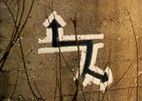 Walking trail sign near Żyrardów (Poland, Mazovia). This one is not typical sign (see: Walking trail signs in Poland).